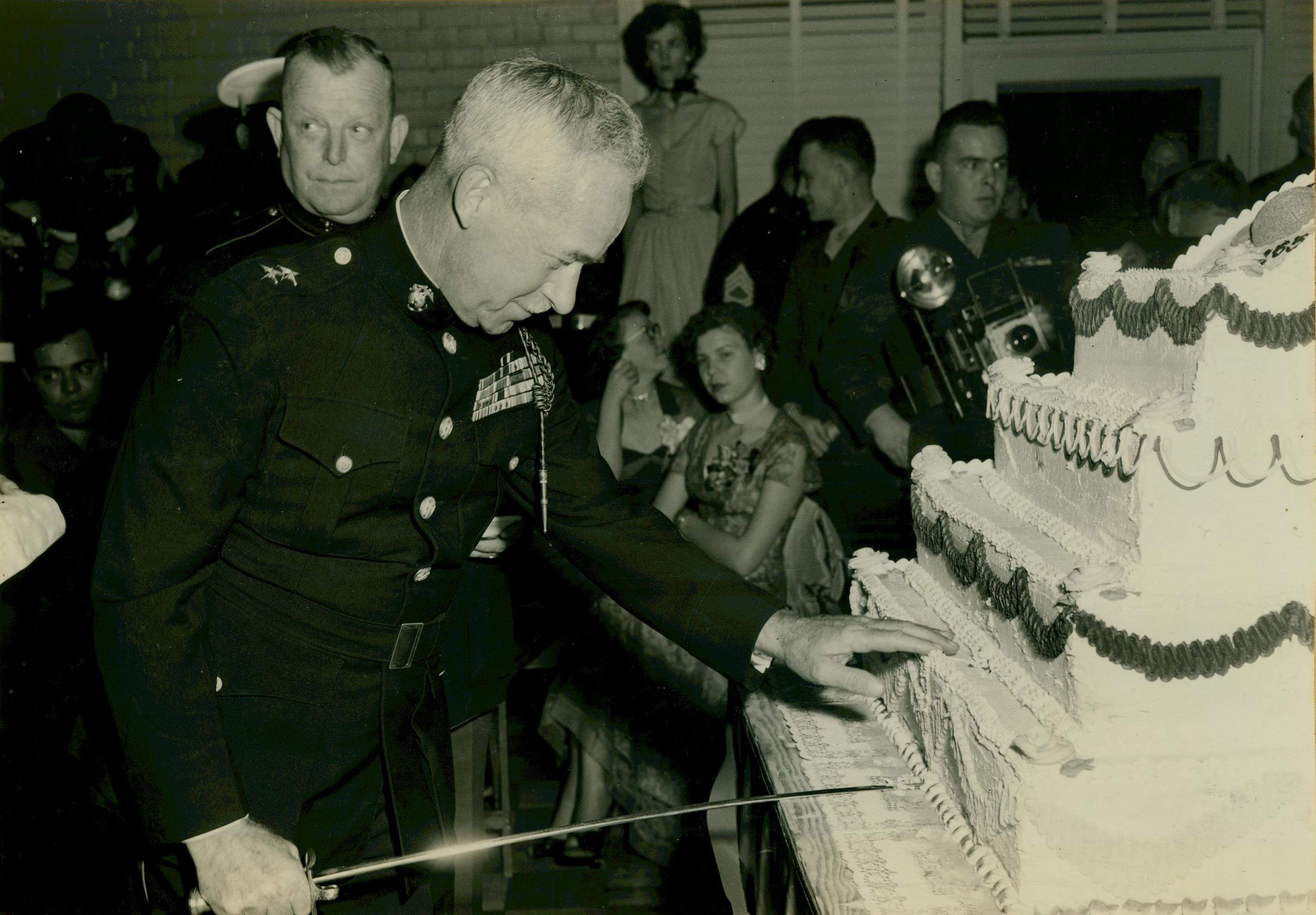 "Major General Merwin H. Silverthorn, Commanding General, Marine Corps Recruit Depot, cuts the first piece of birthday cake at this Staff Non-Commissioned Officers Club." From the Marion Fischer Collection (COLL/858) at the Marine Corps Archives and Special Collections OFFICIAL USMC PHOTOGRAPH